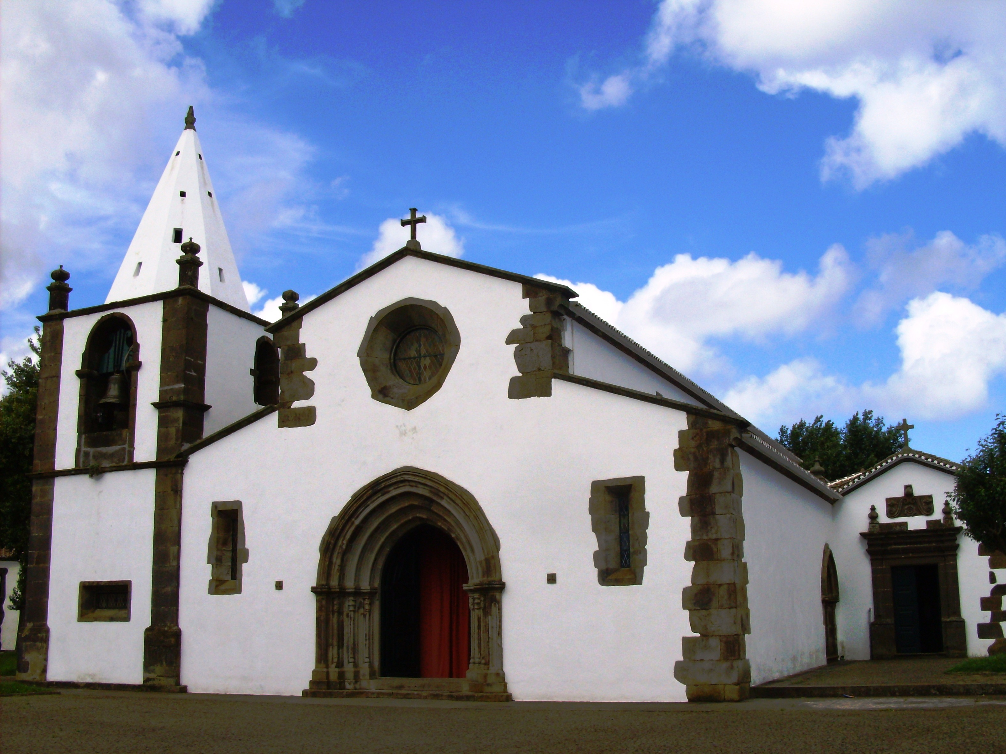 The front façade of Matriz Church of São Sebastião, Vila de São Sebastião, Angra do Heroísmo, Terceira (Azores), Portugal